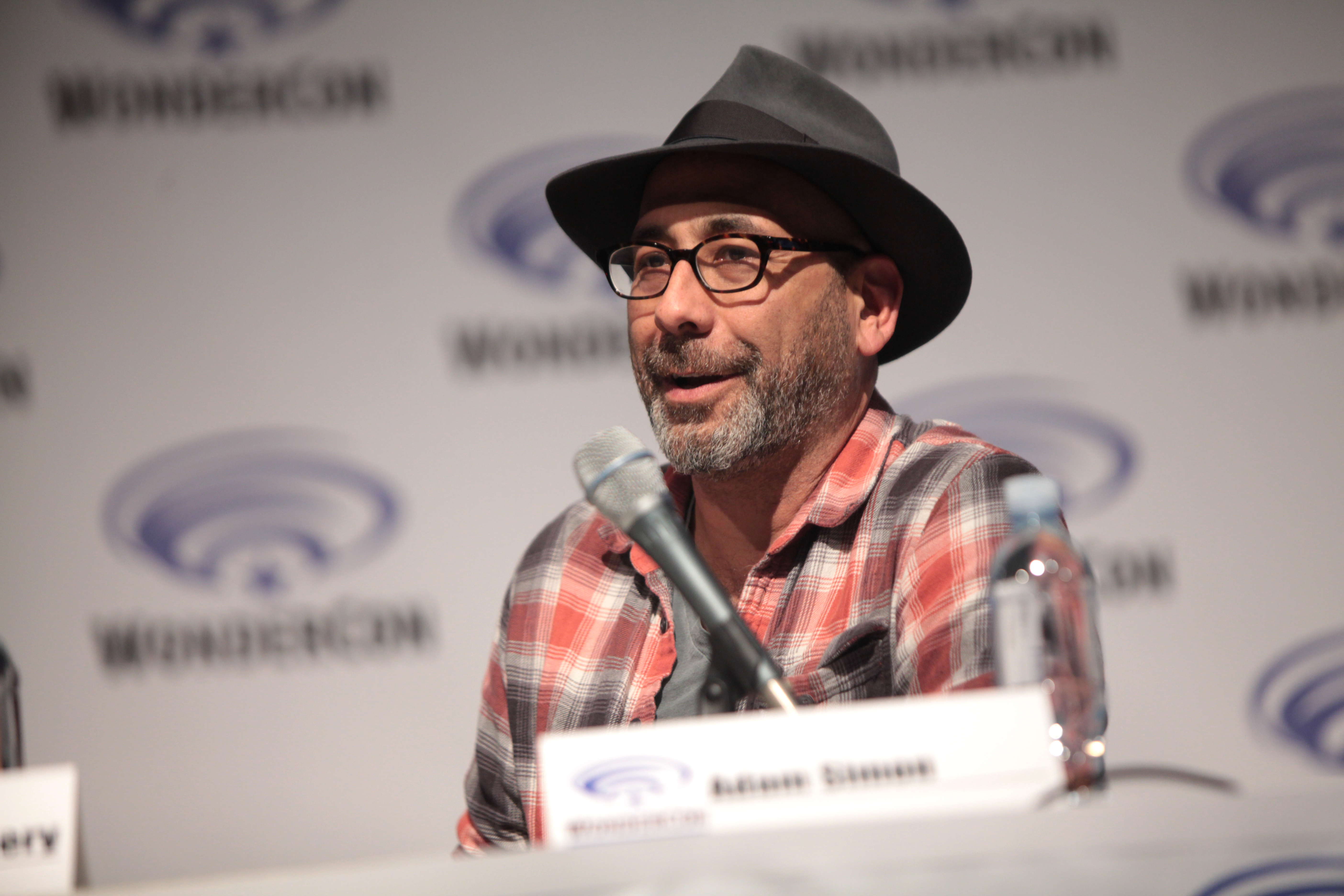 Adam Simon speaking at the 2015 Wondercon, for "Salem", at the Anaheim Convention Center in Anaheim, California.